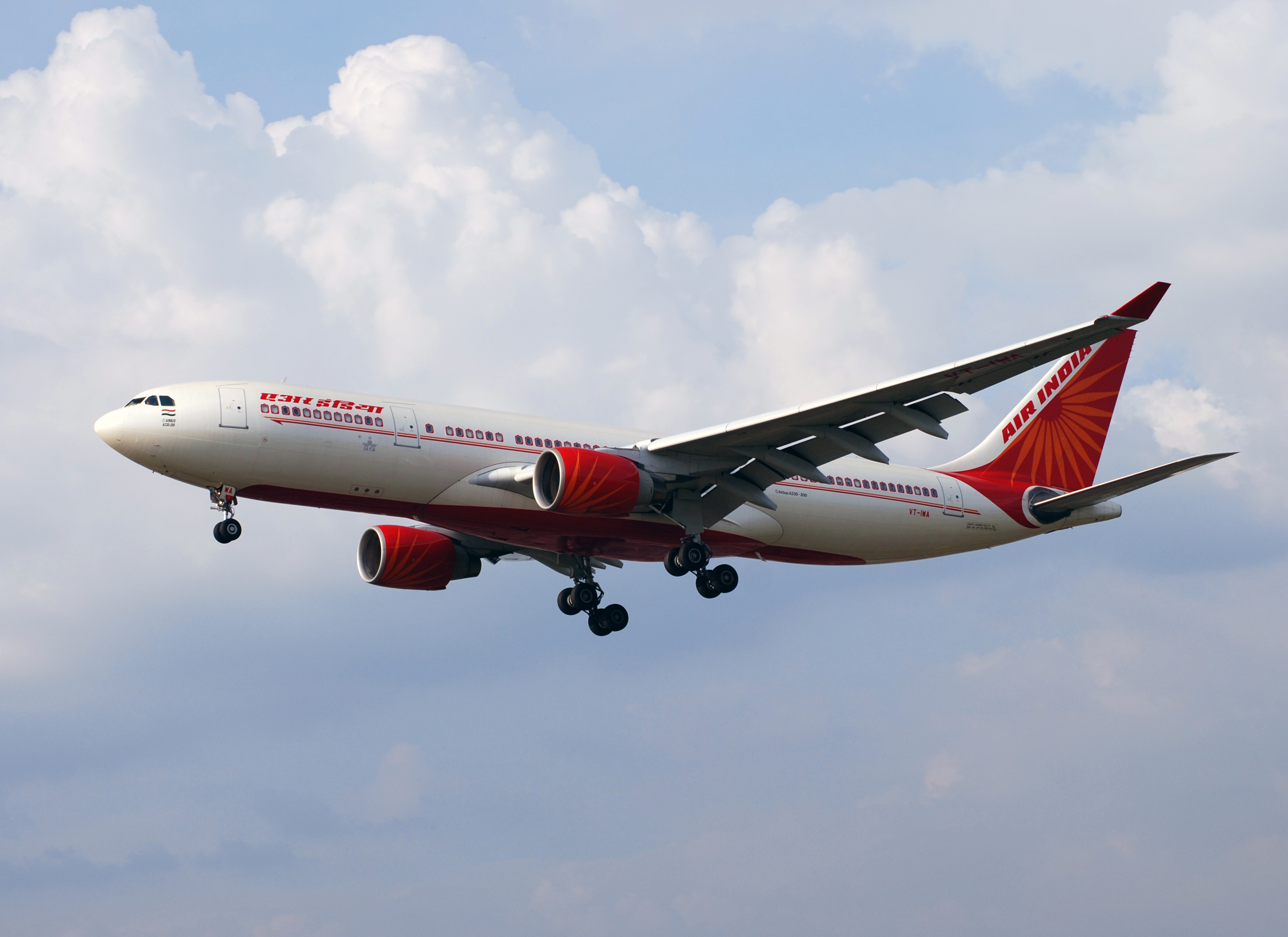 Myrtle Avenue,July 2008